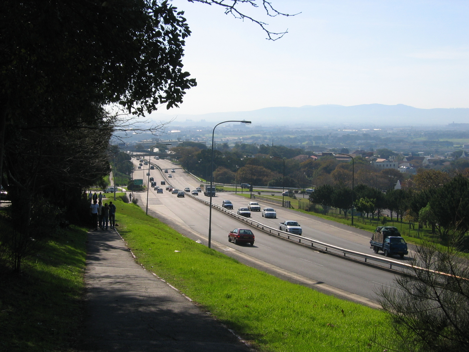 The M3 highway in Cape Town, looking north, as it passes the campus of the University of Cape Town.